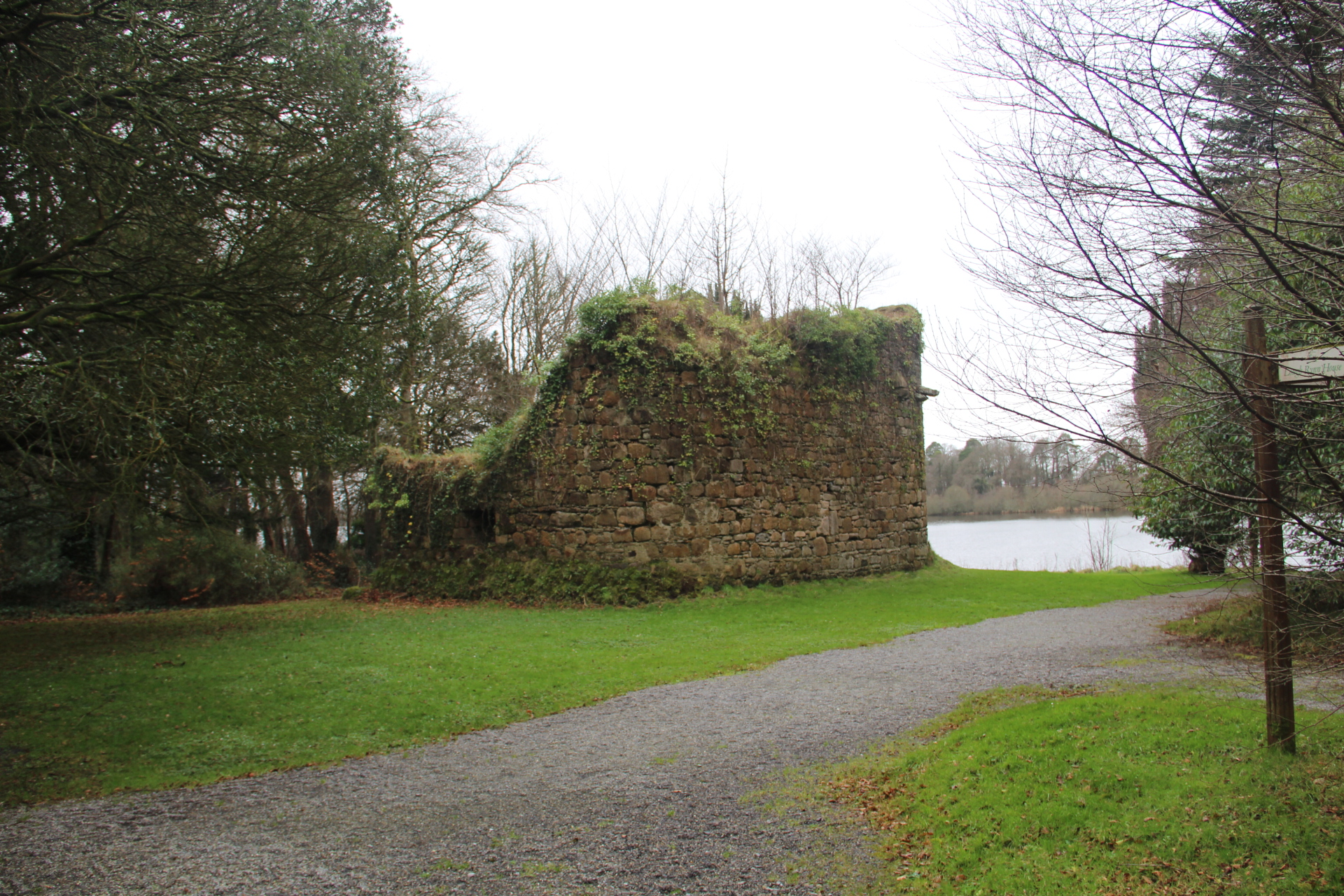 The medieval castle on the shores of Lough Rynn of the Mac Raghnaill family.